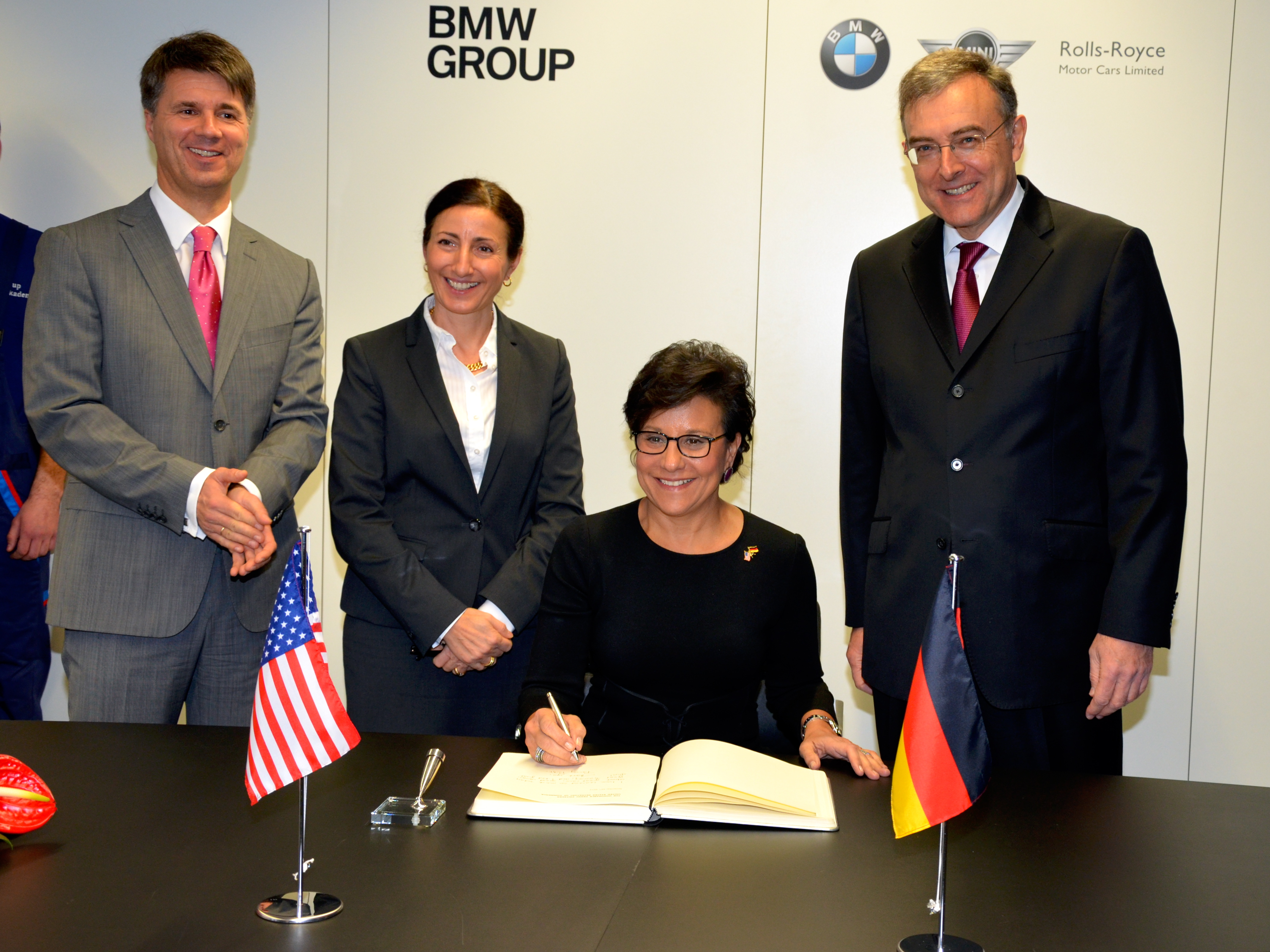 Secretary of Commerce Penny Pritzker visits BMW in Munich. L to R: Harald Krüger, Milagros Caiña Carreiro-Andree, Penny Pritzker, and Norbert Reithofer, November 2013